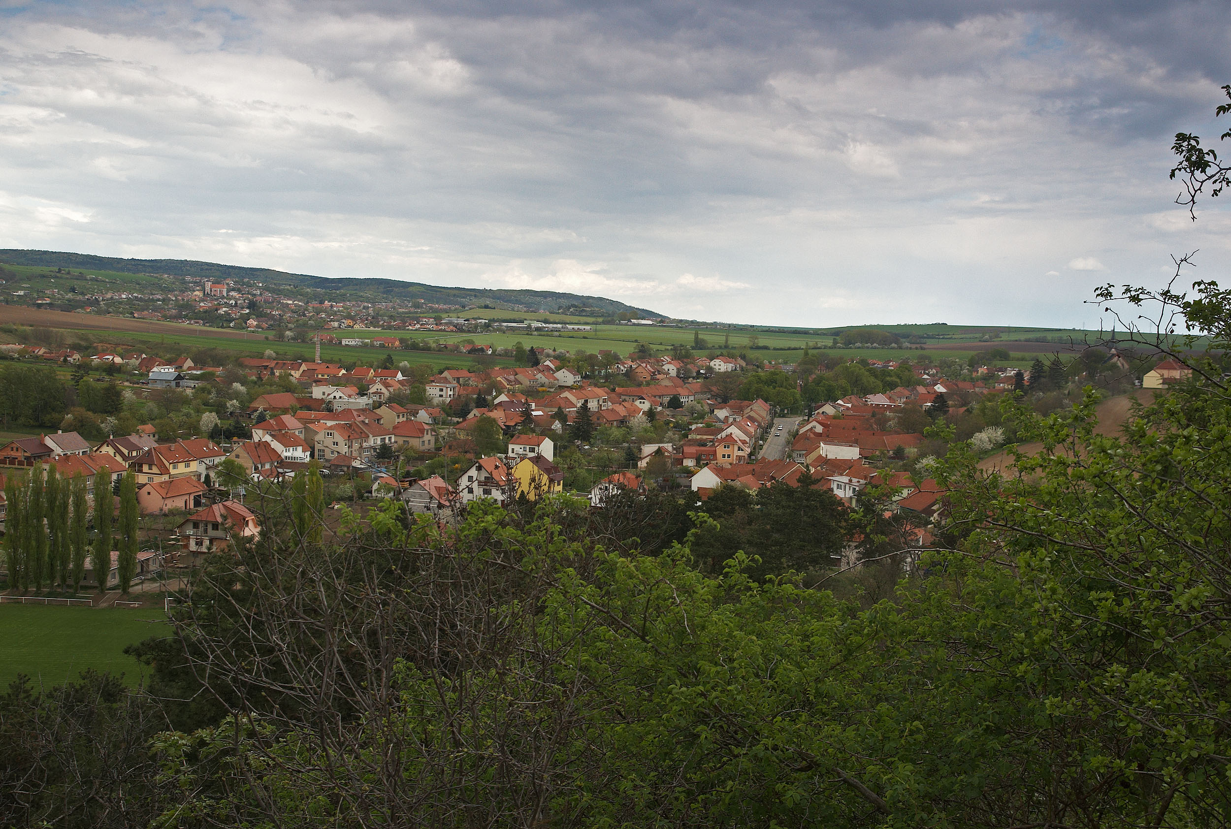 Tvarožná from Santon